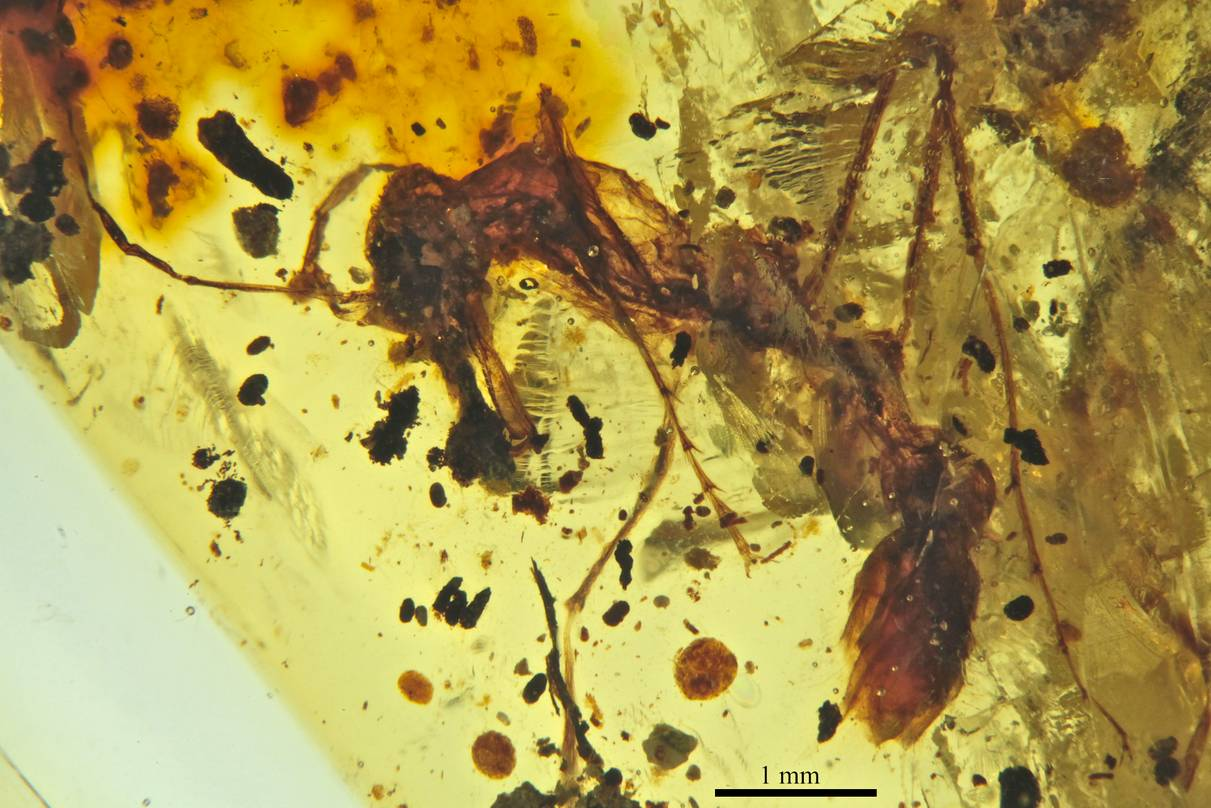 Myanmyrma gracilis holotype worker in lateral view. Fossil in Burmese amber. Specimen number AMNH-BU014.